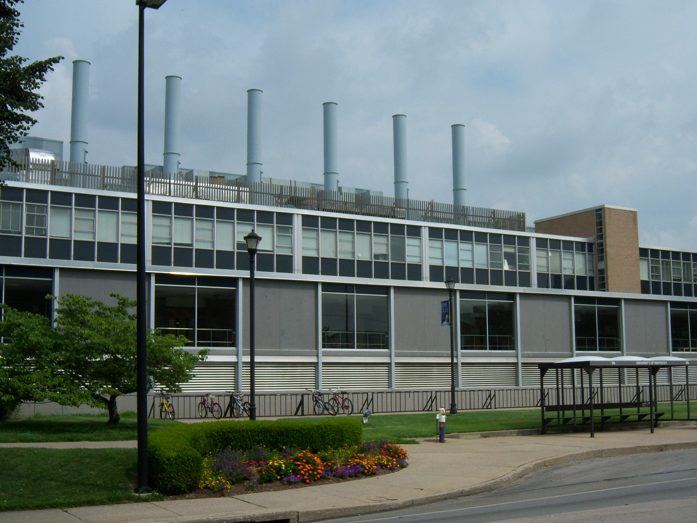 The Chemistry-Physics Building (University of Kentucky) as viewed from Rose Street.